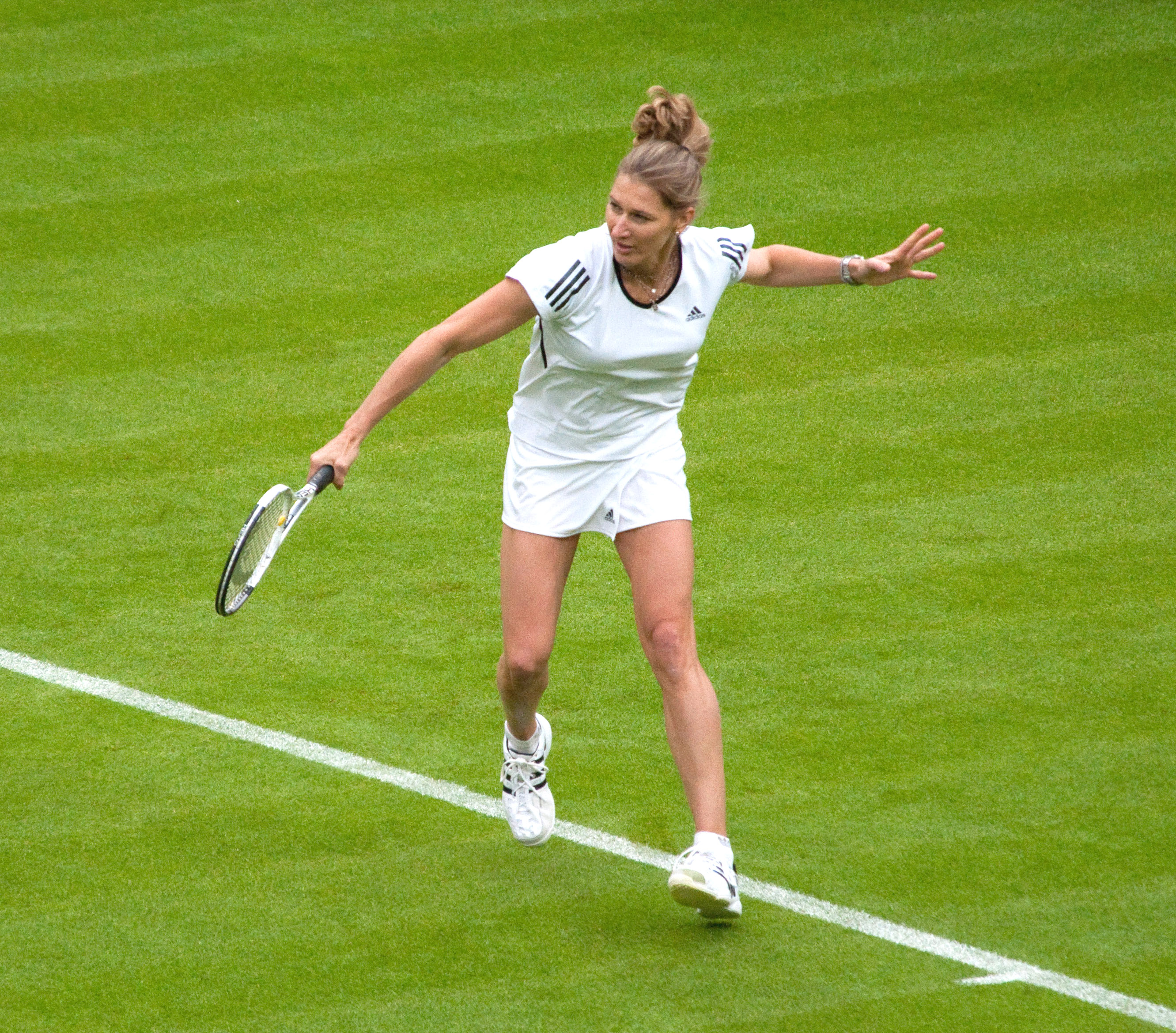 Former World No. 1 German female tennis player Steffi Graf during the special event “A Centre Court Celebration” (event was designed to test a new roof and air management system with live tennis in front of a capacity crowd of 15,000 – Andre Agassi and Steffi Graf played vs. Tim Henman and Kim Clijsters) Camera: Nikon D300 License on Flickr (2011-01-08): CC-BY-2.0 Flickr tags: Steffi Graf, Wimbledon, Centre Court, Centre Court Celebration